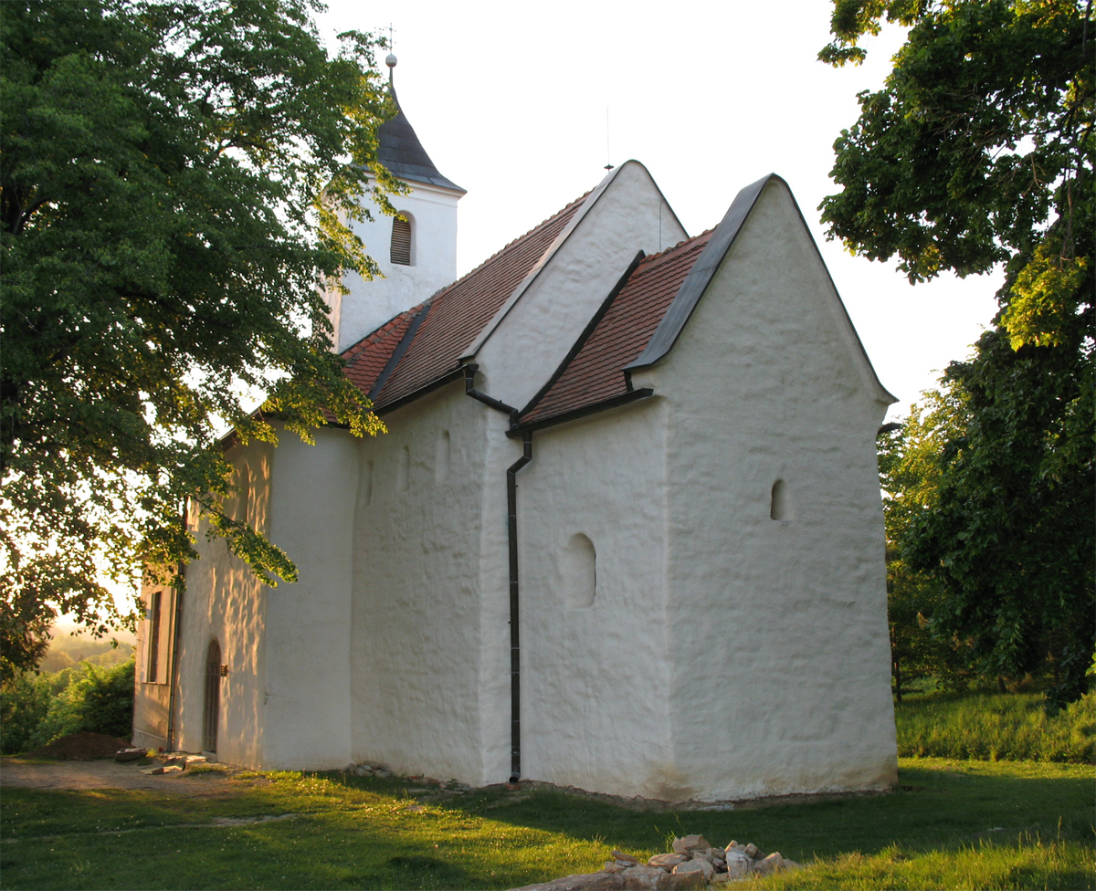 Church in Kostoľany pod Tribečom